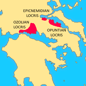 The map shows the locations of Ozolian Locris and Opuntian Locris